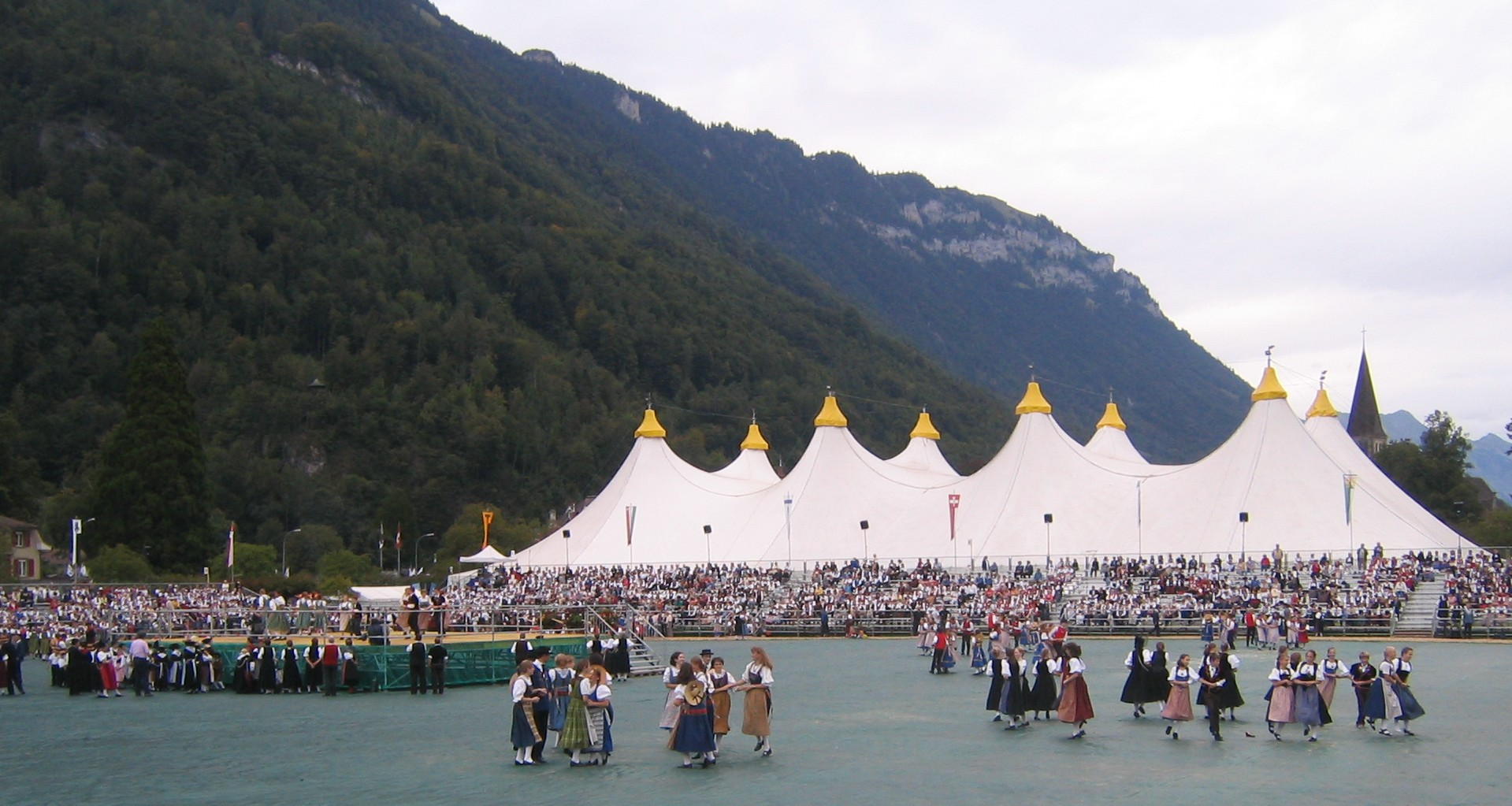 Dance performance at the Unspunnen Festival 2006 in Interlaken, Switzerland